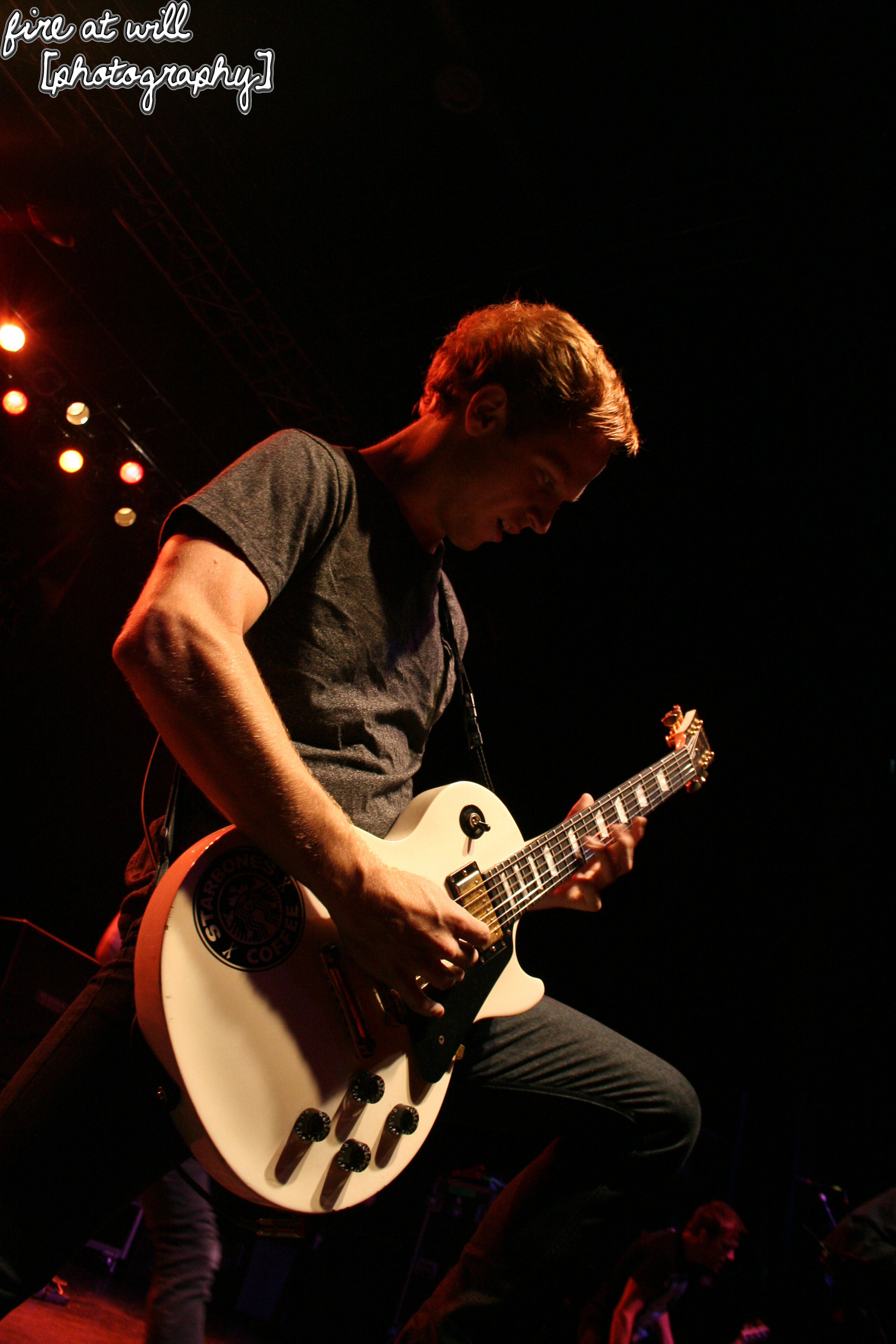 Blessthefall The All Stars Tour 2011 The National - 8/10/11 Richmond, VA